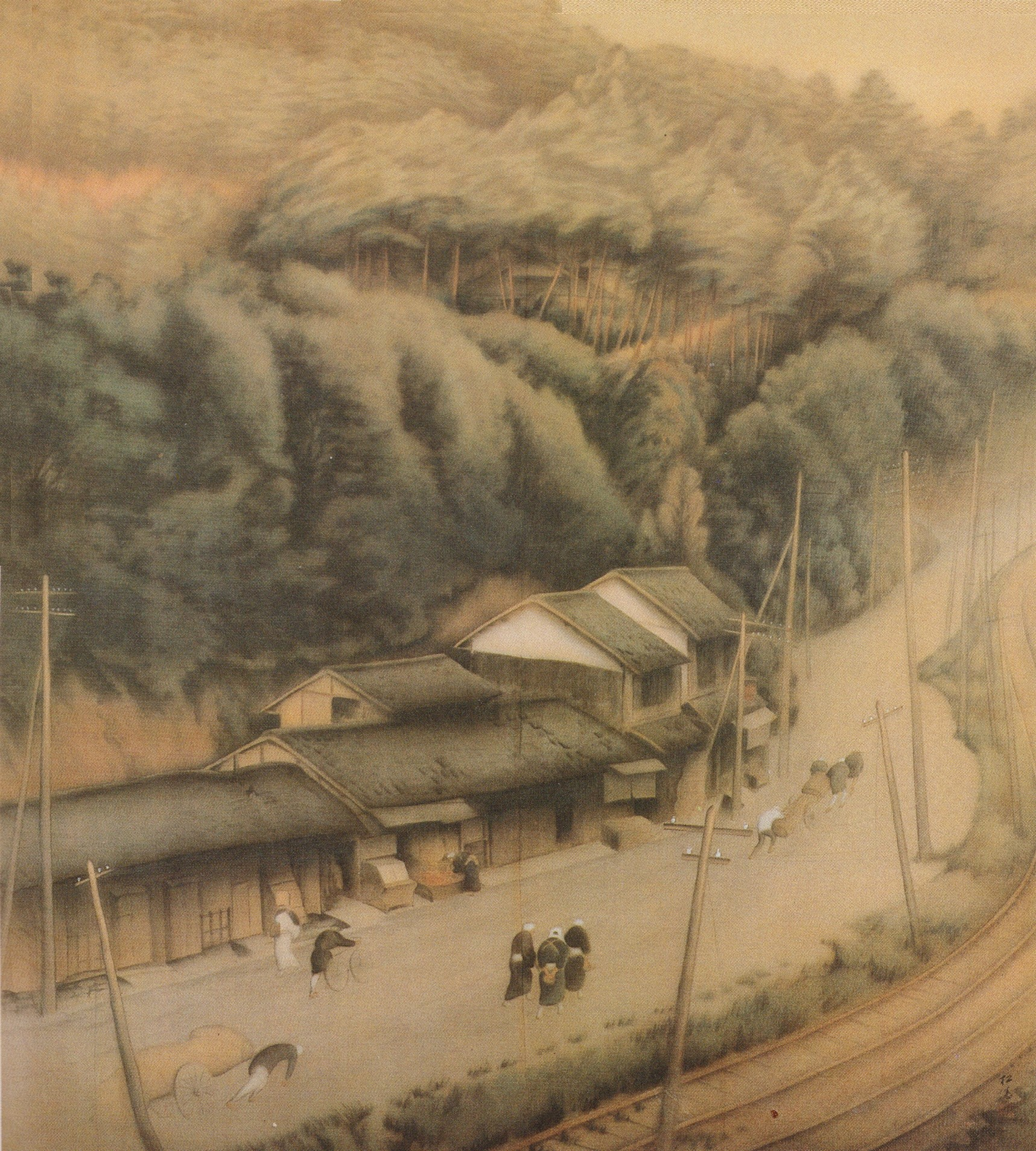 Kamisaka Shōhō: View of Keage